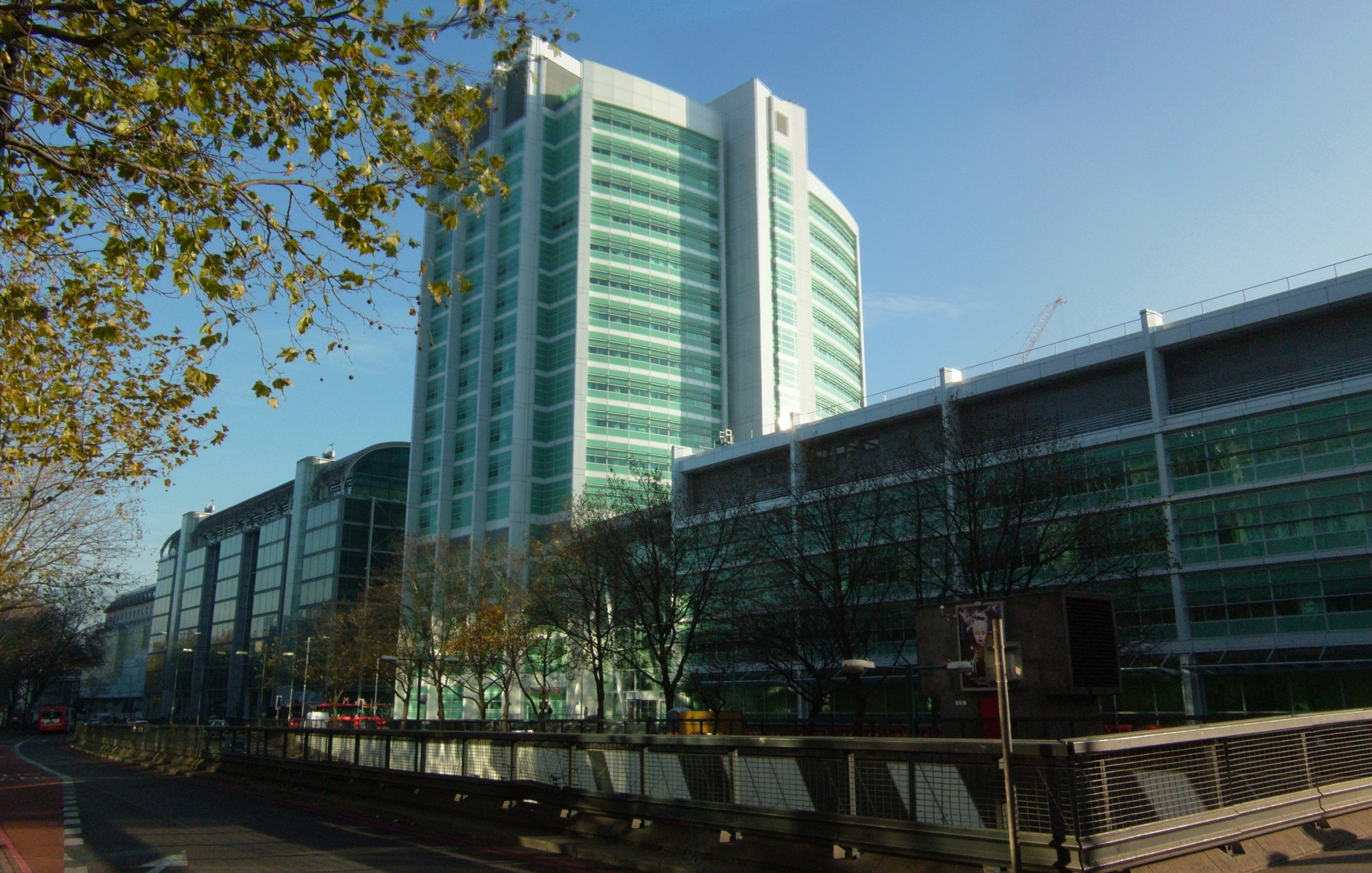 University College Hospital in London